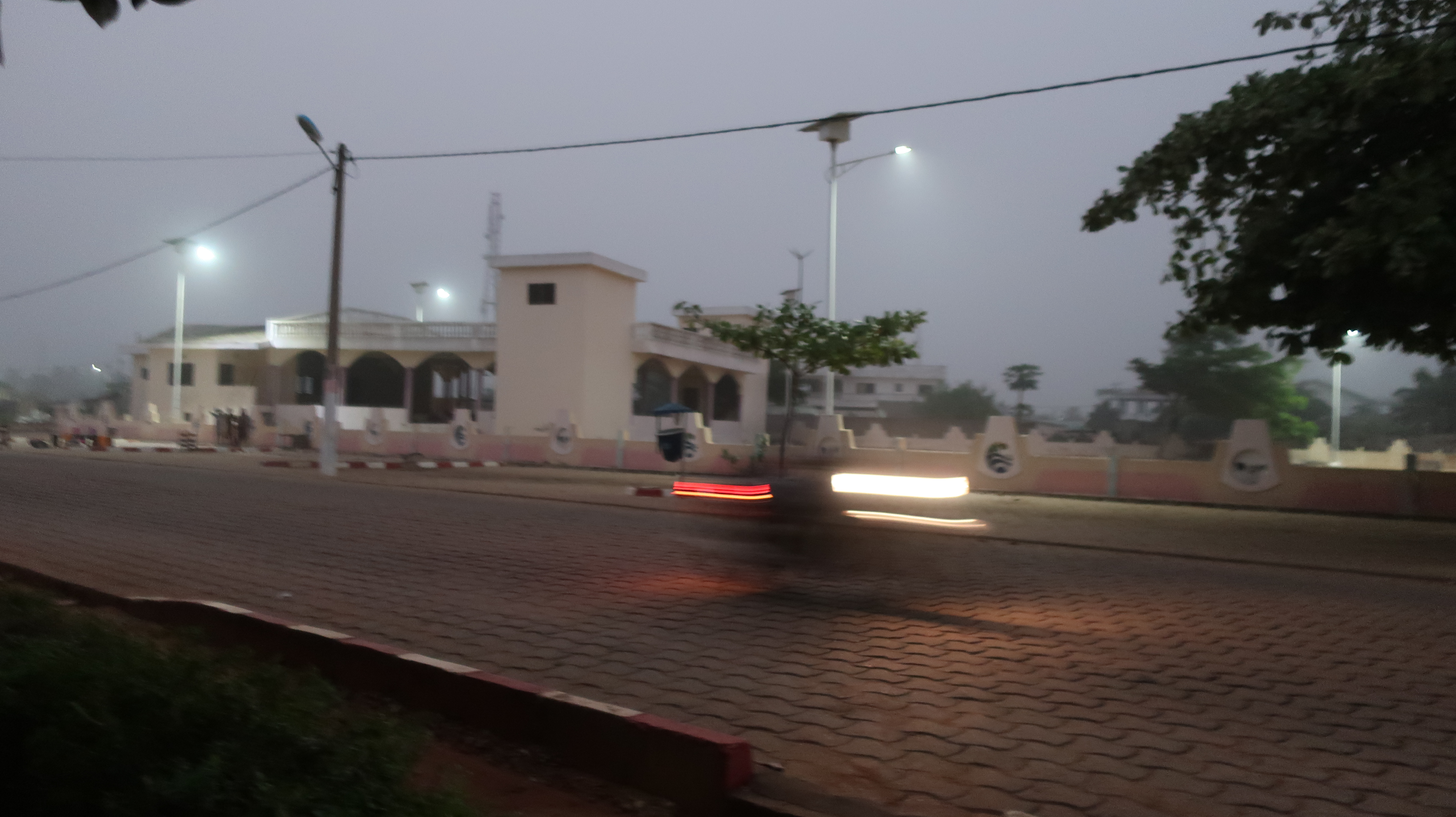 Nonvitcha cultural association festival area in Grand-Popo, Benin in December 2017